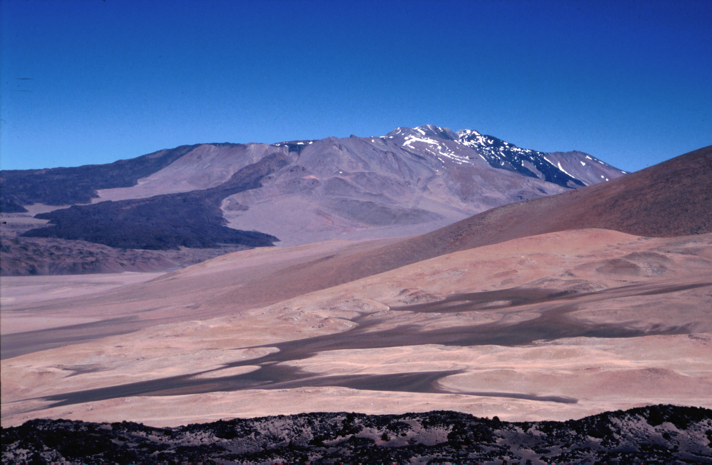 Cerro El Condor seen from near Laguna Amarga